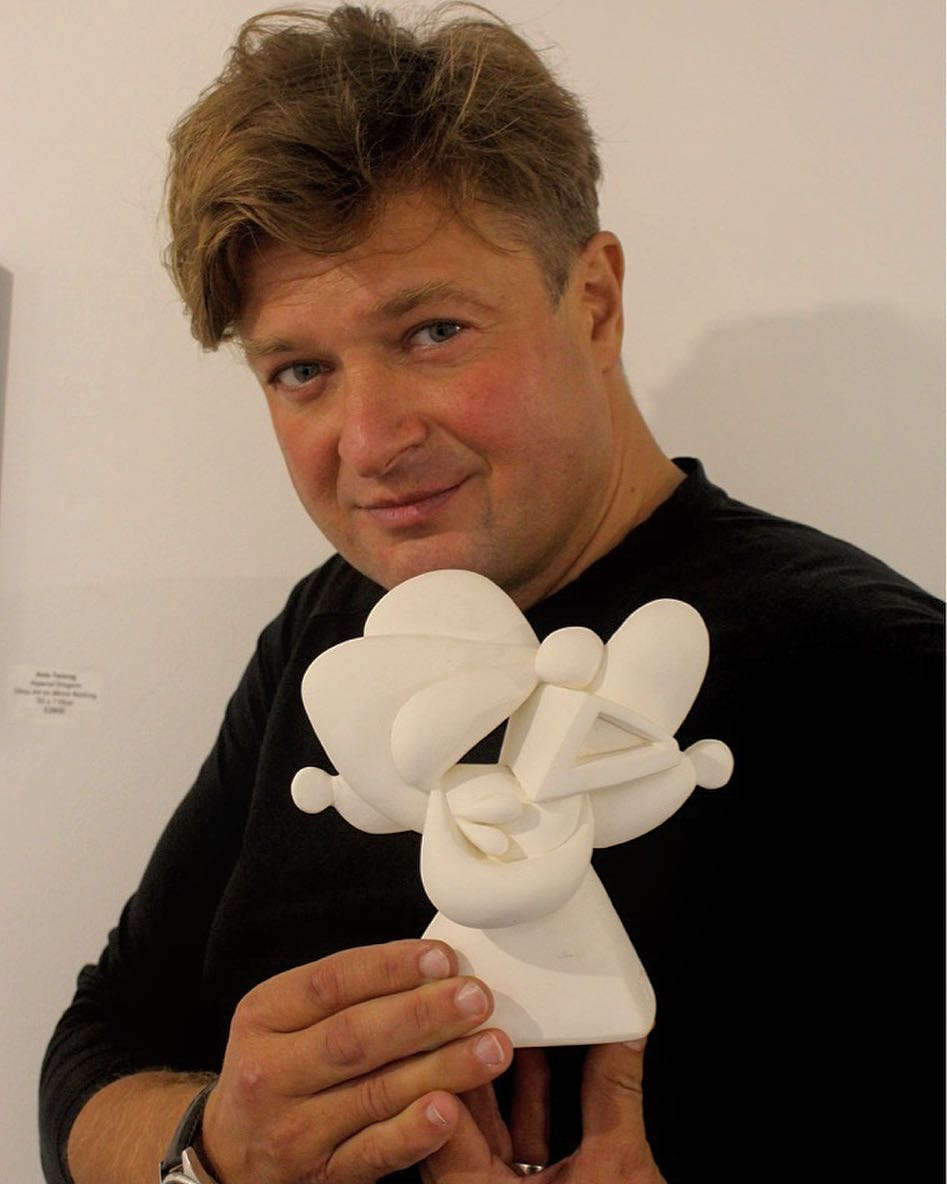 sculpture